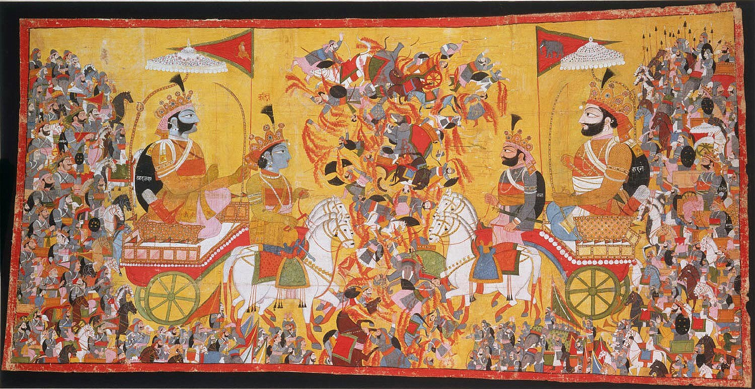 The painting depicts the battle of Kurukshetra of the Mahabharata epic. On the left the Pandava hero Arjuna sits behind Krishna, his charioteer. On the right is Karna, commander of the Kaurava army.